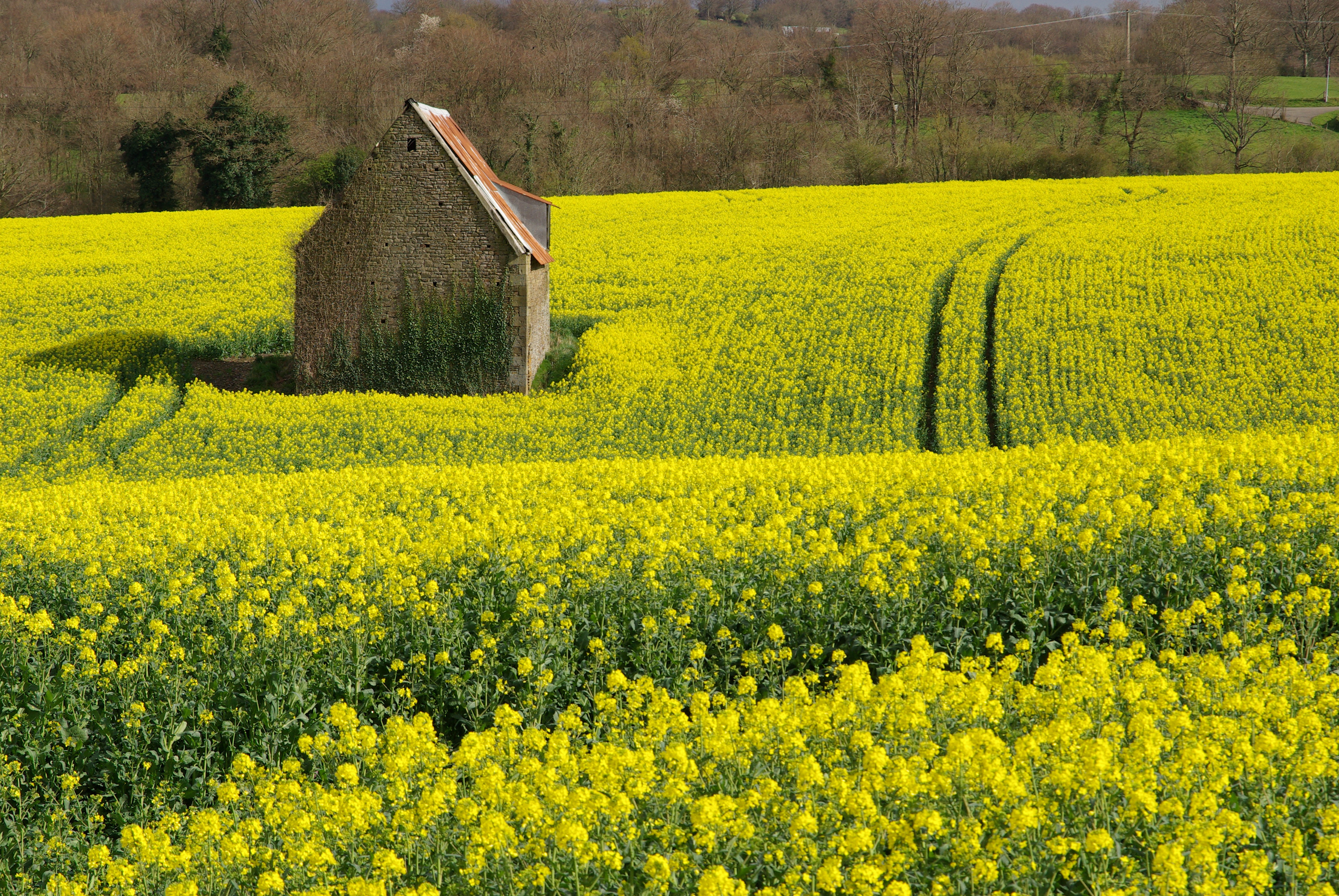 Field of bot in Orne